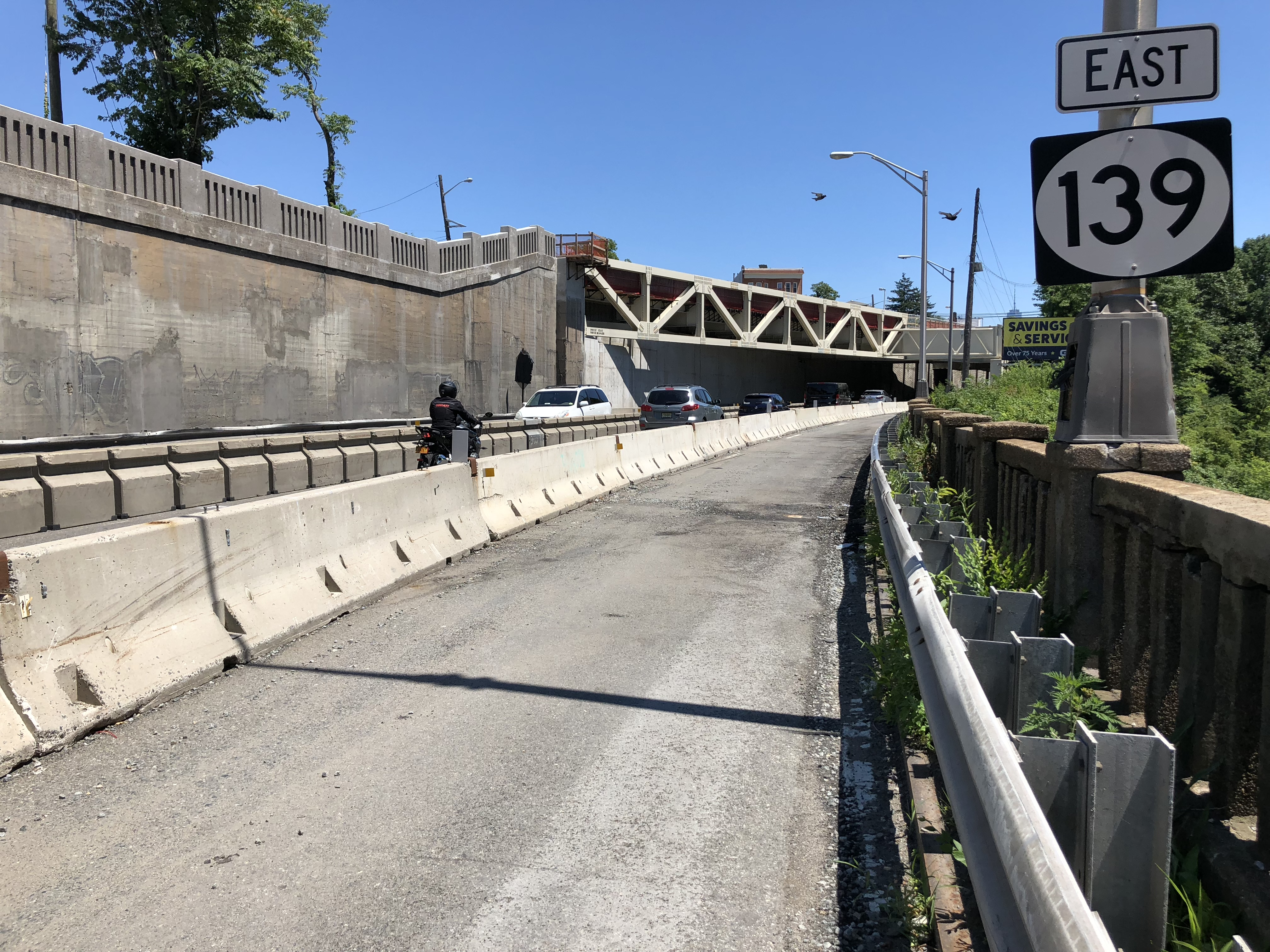 View east along New Jersey State Route 139 just east of U.S. Route 1 and U.S. Route 9 in Jersey City, Hudson County, New Jersey